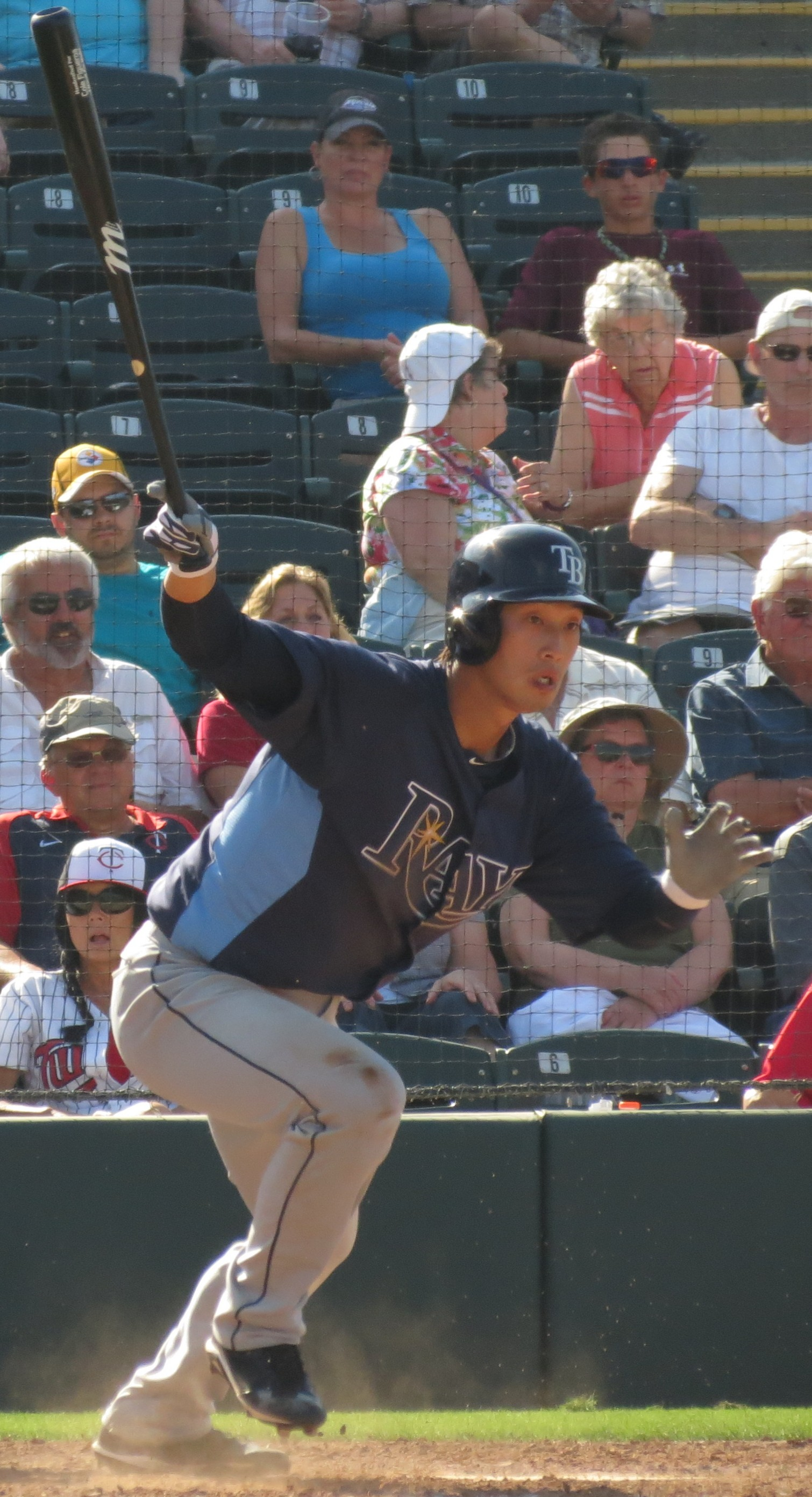 Hak-Ju Lee